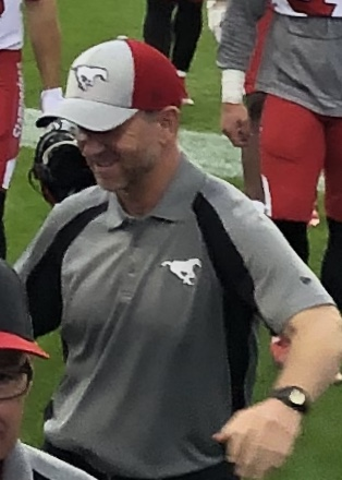 Dave Dickenson, 2019 head coach for the Calgary Stampeders.